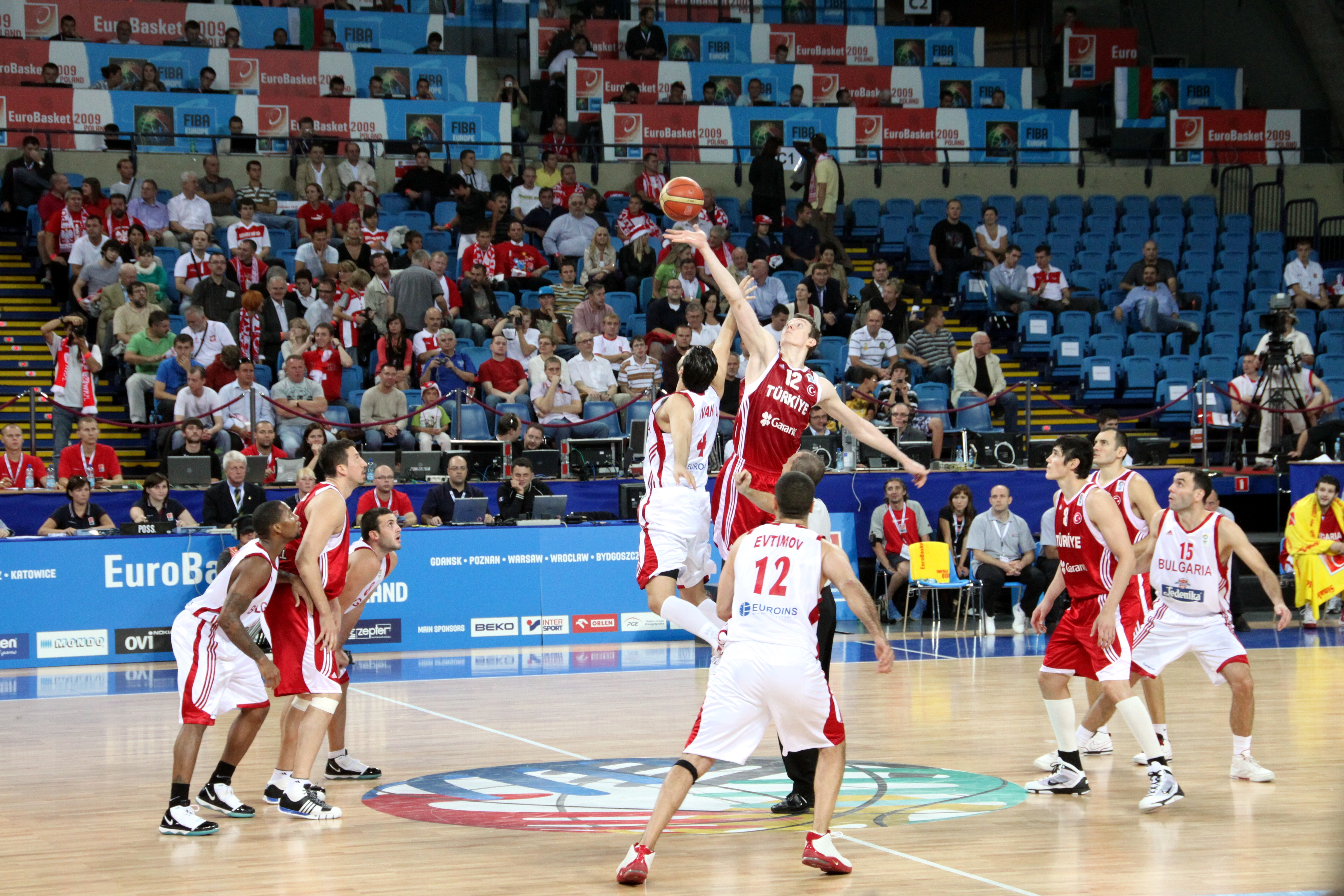 Bulgaria - Turkey 66-94 - The Jump ball: From the beginning you could tell which team will have the upper hand... (Bulgaria - Turkey 66-94, Eurobasket 2009) Bulgaria 66-94 Turkey